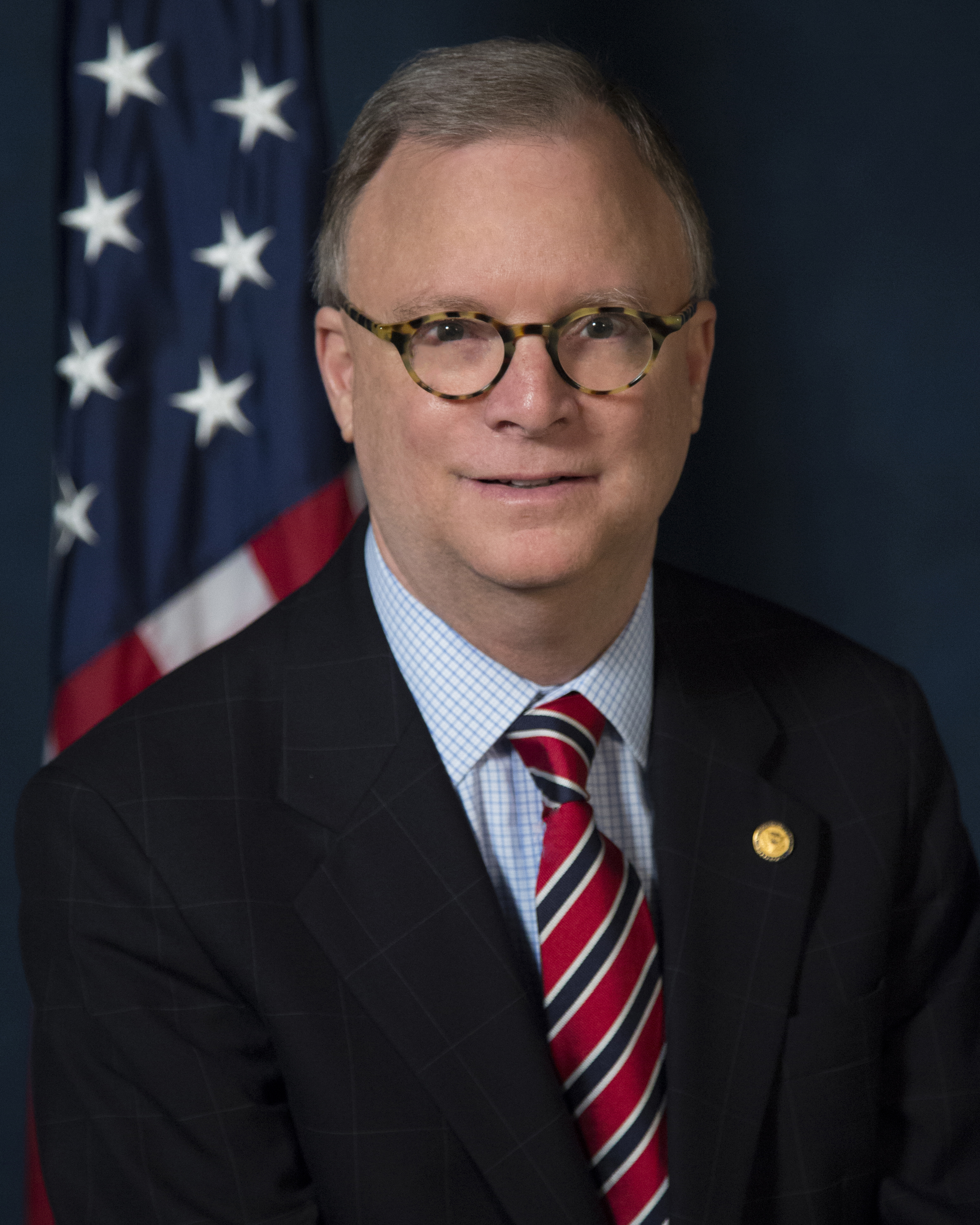 Robert L. Sumwalt official photo as a NTSB board member